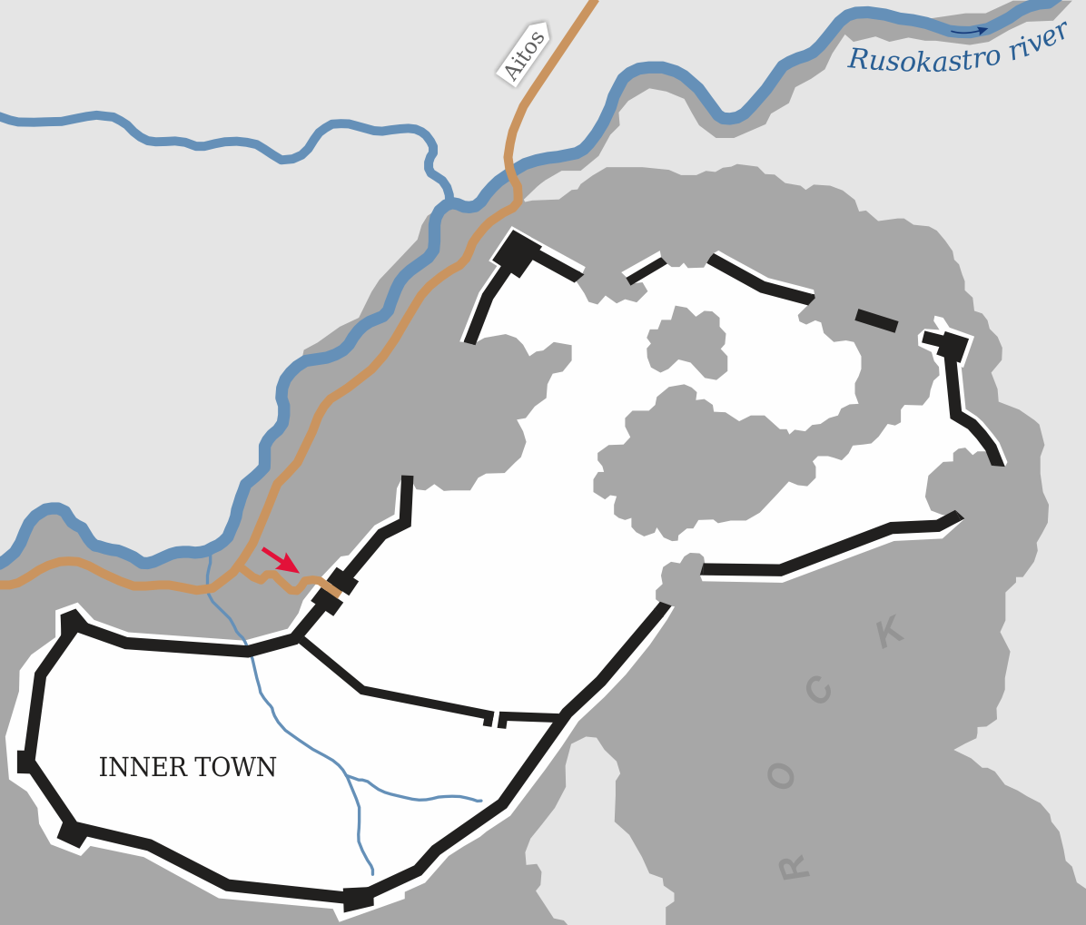 Rusokastro Fortress - plan